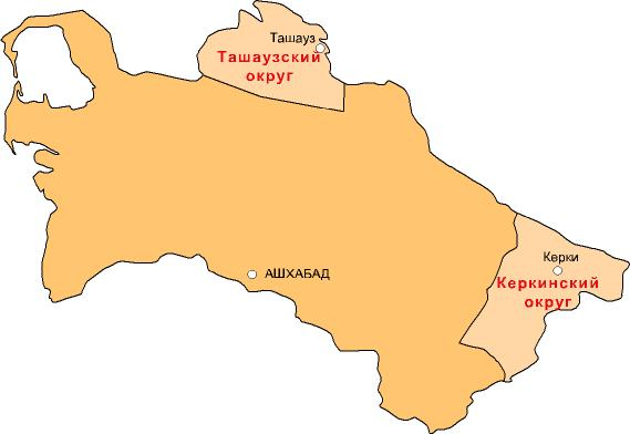 Map of Turkmen SSR 1.12.1938